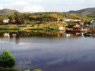 A view of Barca d'Alva and Douro river from the road of Freixo.